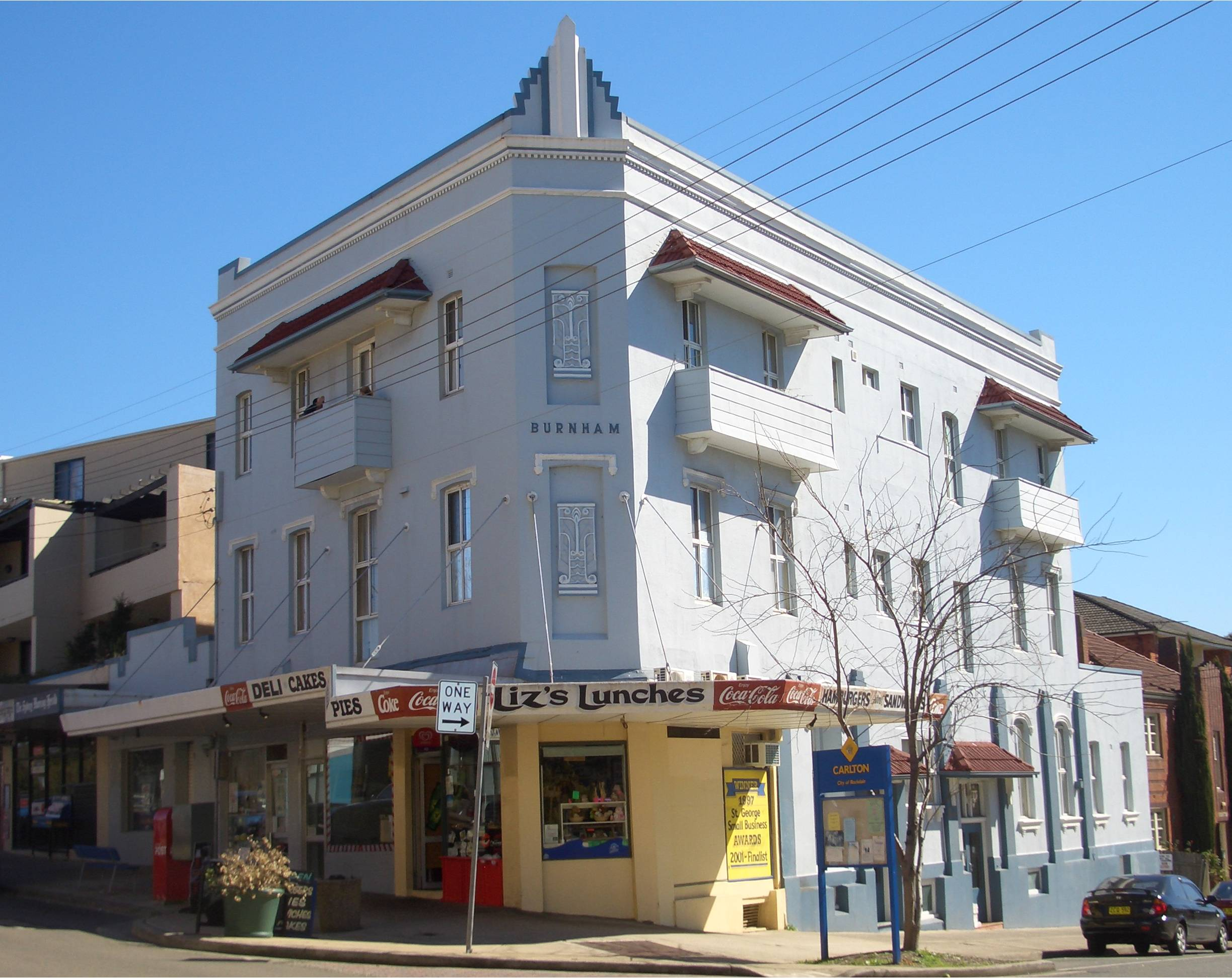 Carlton shops, Sydney, Australia. I took the photo on 18th June 2006.J Bar 02:58, 29 August 2006 (UTC)